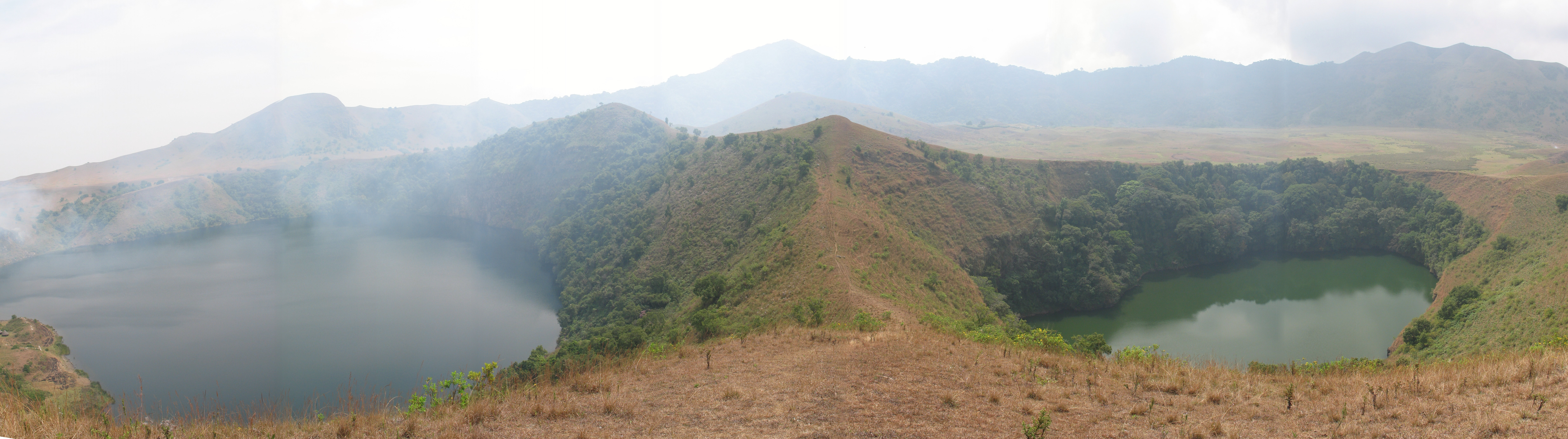 Male and Female Manengouba lakes